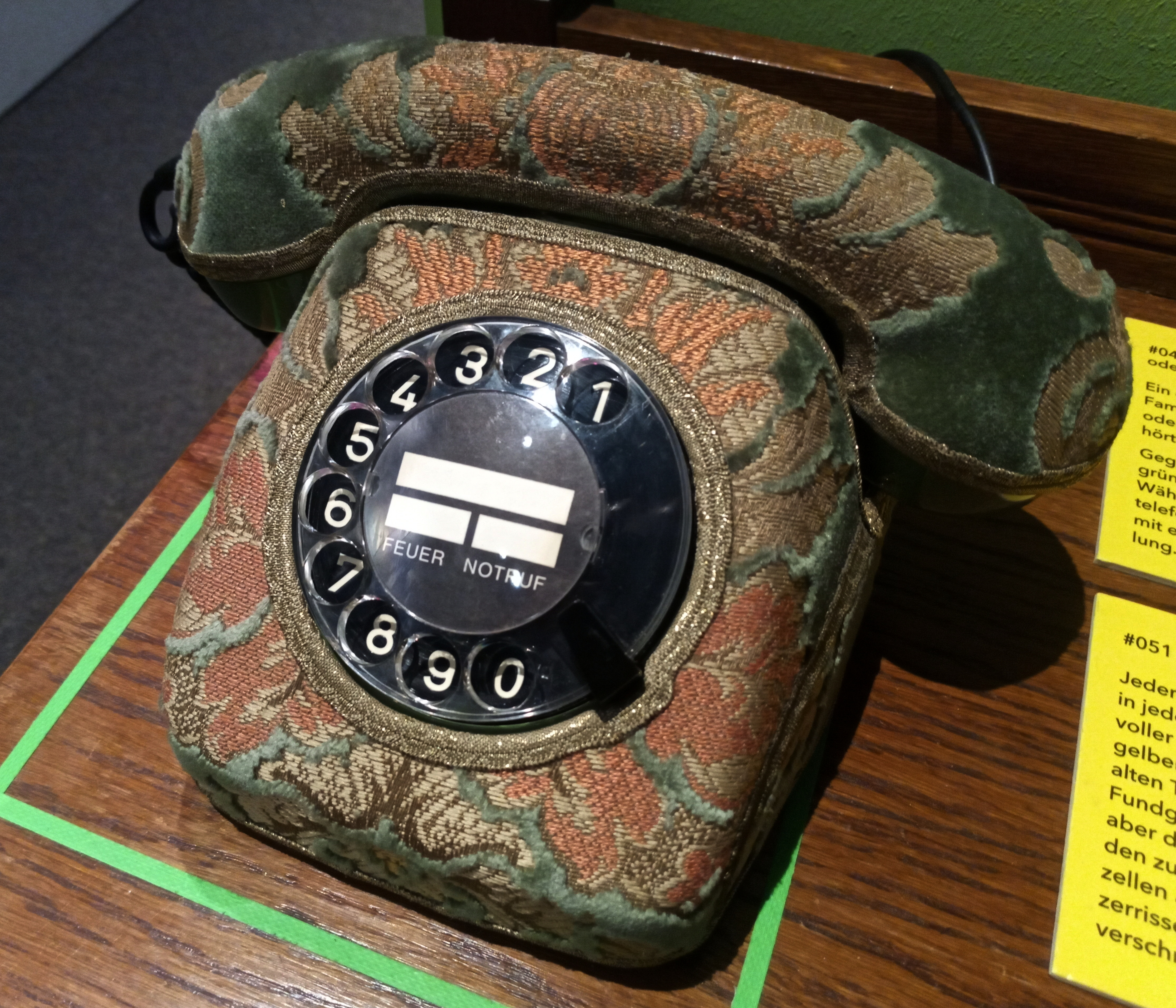 Deutsche Bundespost (German Telecom) telephone FeTAp 611-2 with decorateive textile cover.